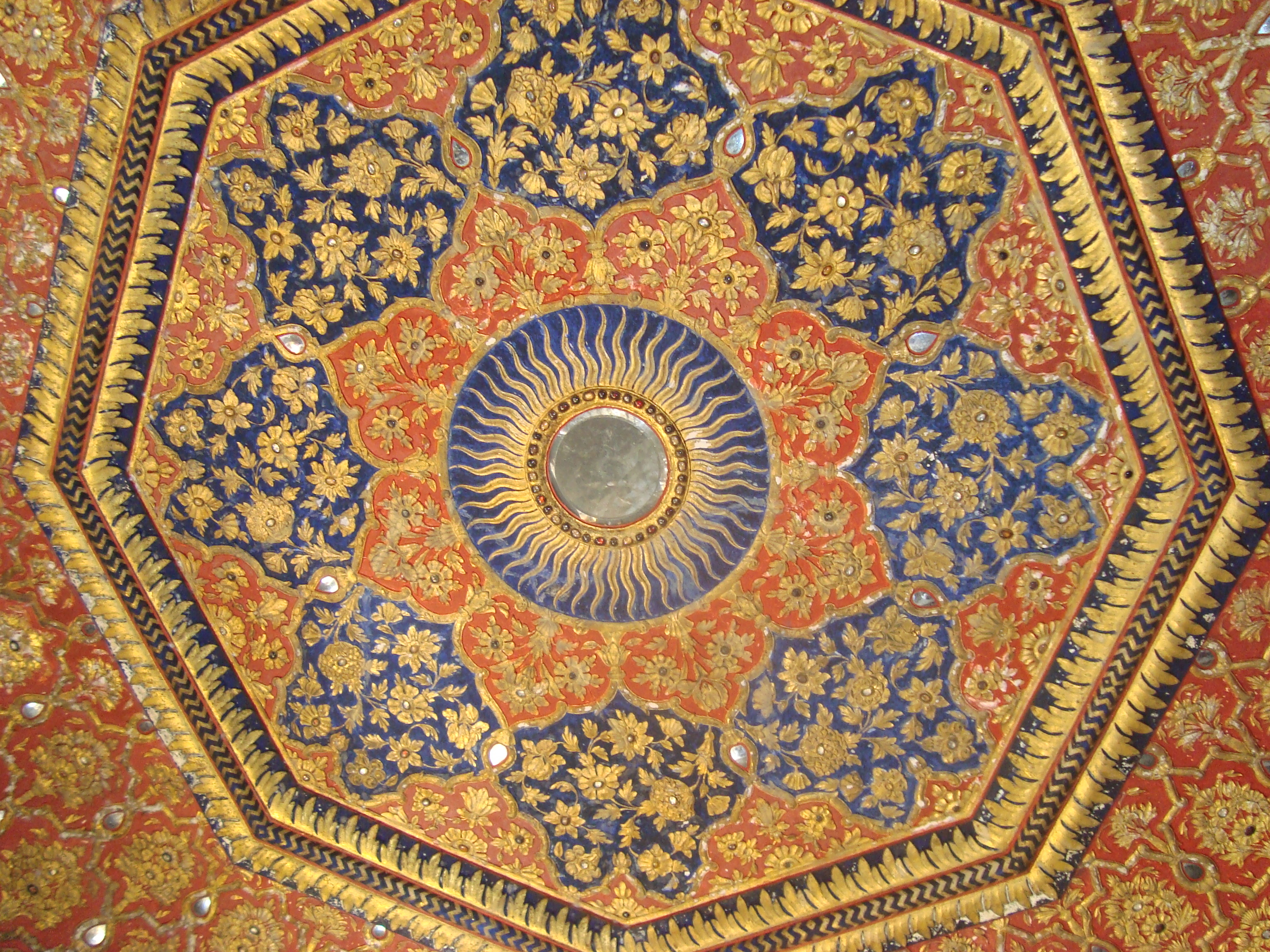 Ornate Ceiling of the Golden Temple (Harmandir Sahib) in gold and precious stones, Amritsar, India